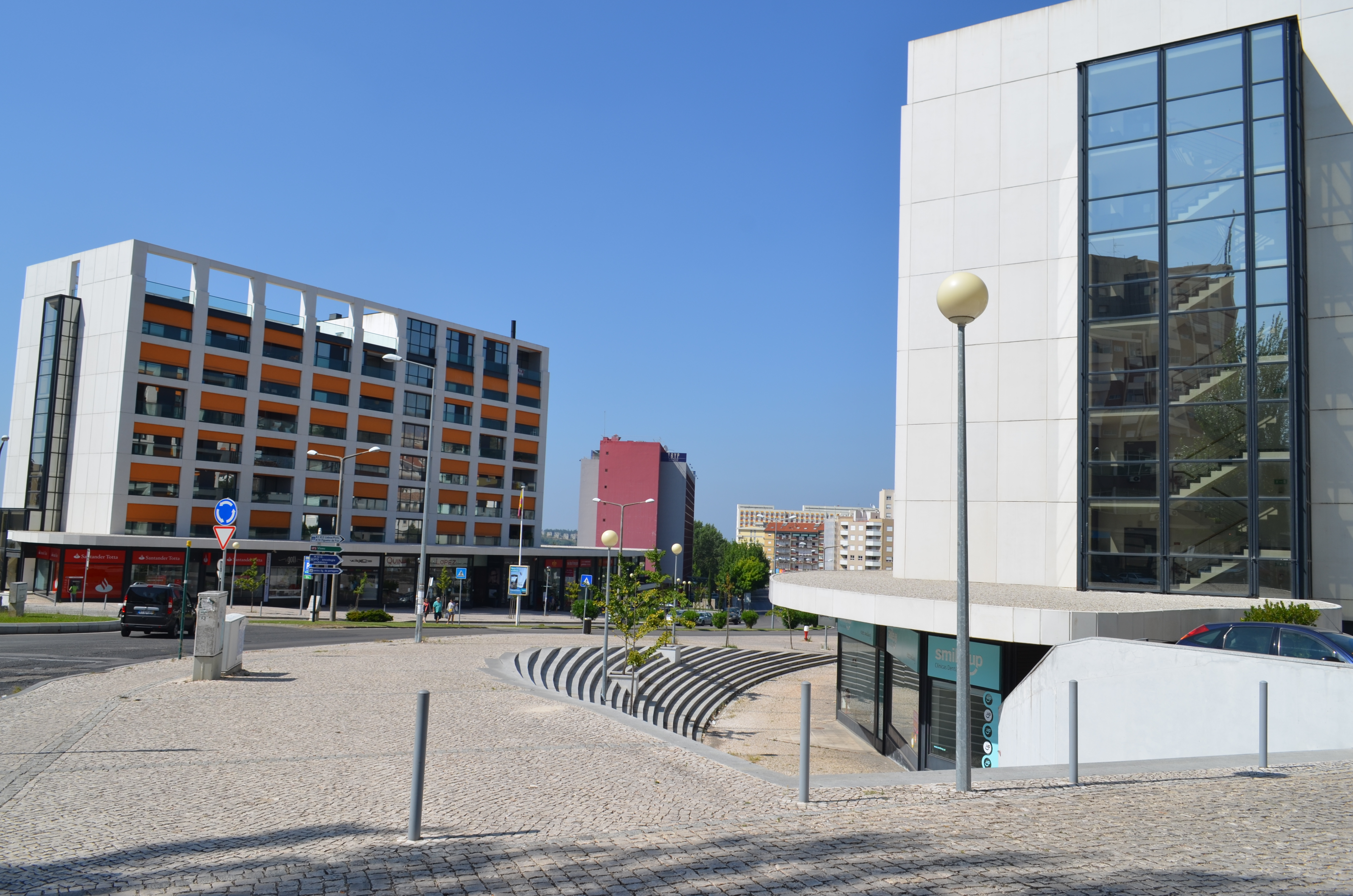 Dr Armando Gonçalves Lane, Coimbra, Portugal.